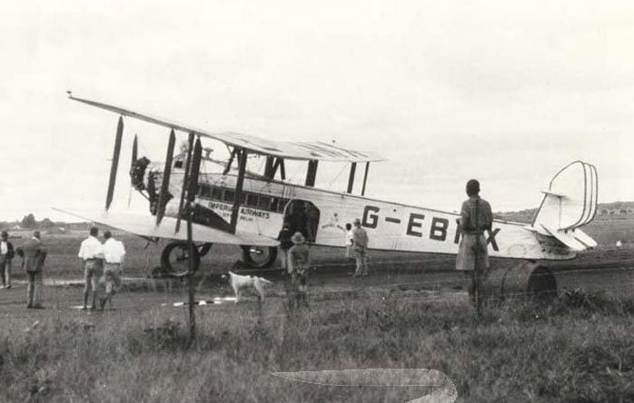 Imperial Airways De Havilland DH.66 Hercules City of Delhi - Original image taken by a British government employee prior to 1956.